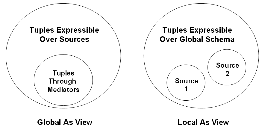 GAVLAV